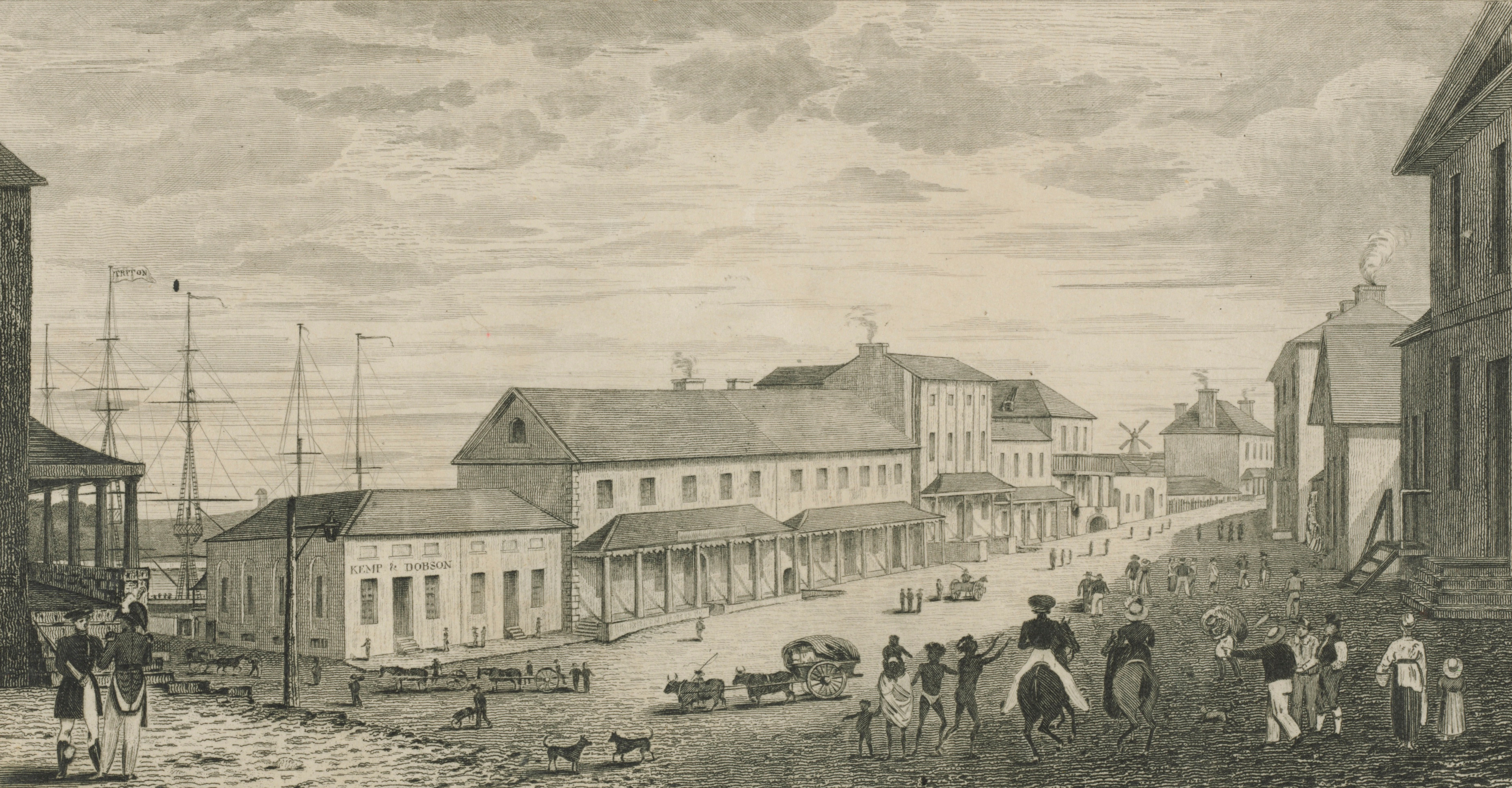 Lower George Street, Sydney about 1828.